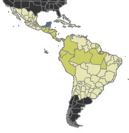 Distribution of Tatuidris Present Likely present Uncertain Absent Source: AntWiki